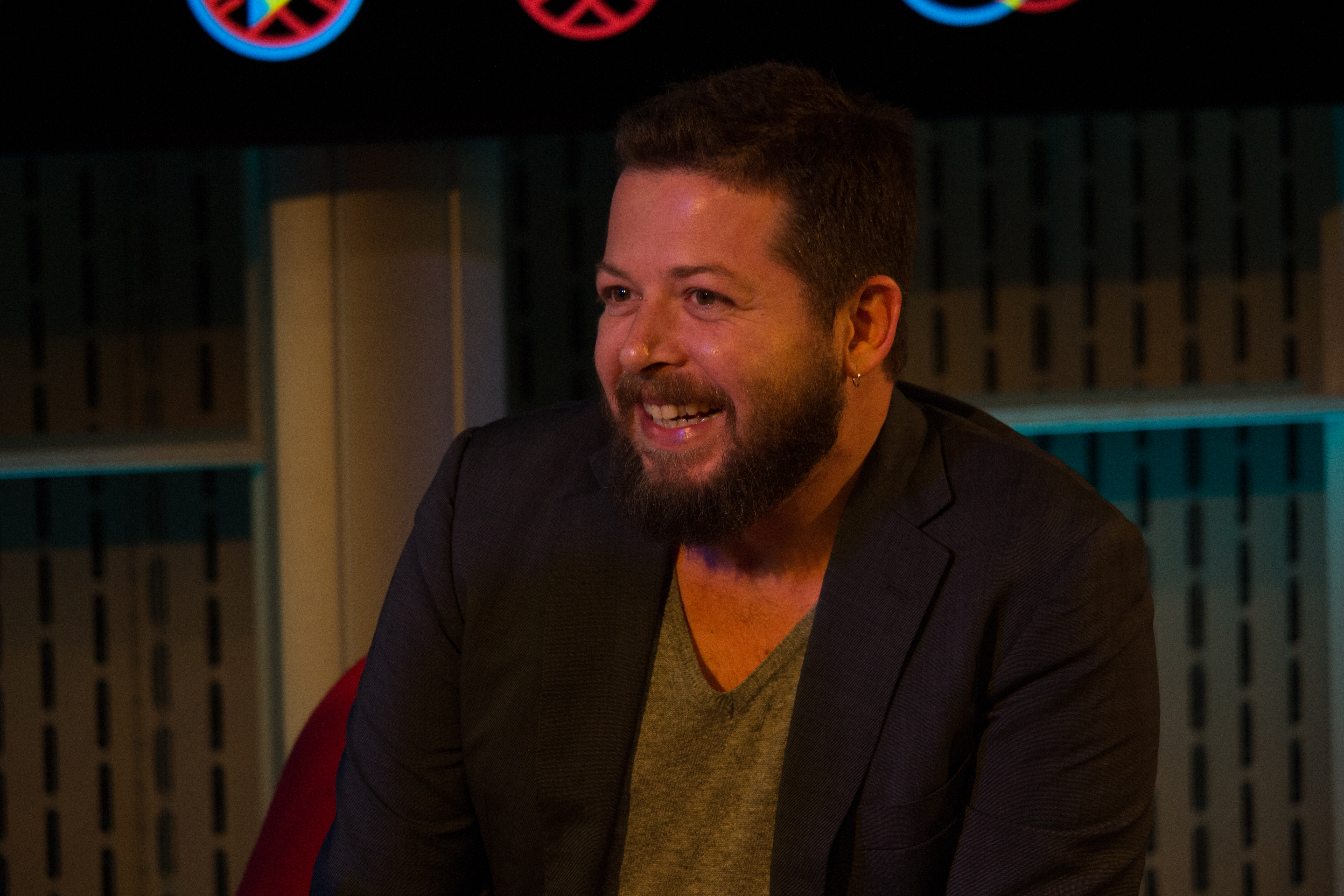 Syllas Tzoumerkas at the IFFR